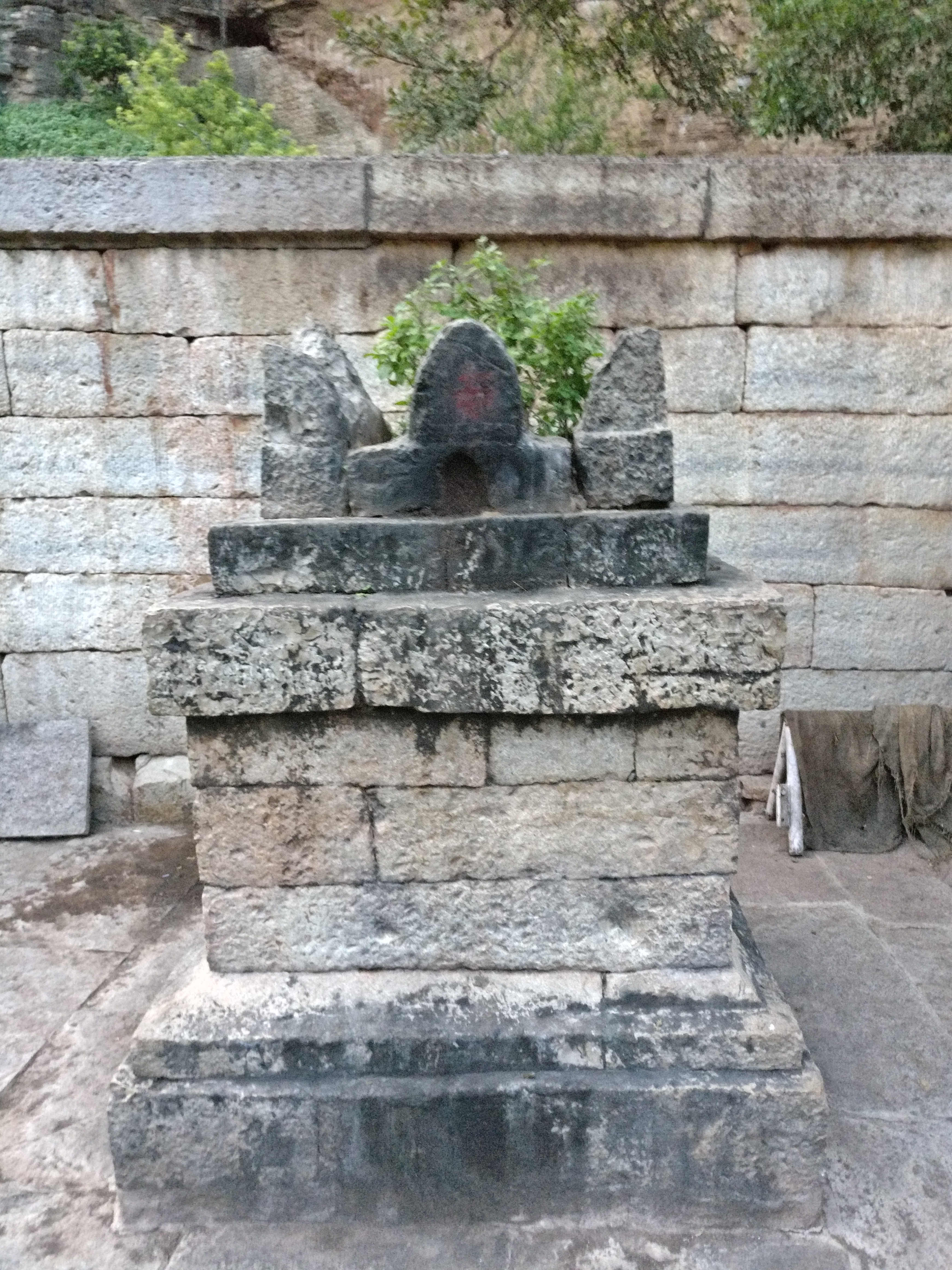 Ancient Tulasi Kota in Yaganti Temple